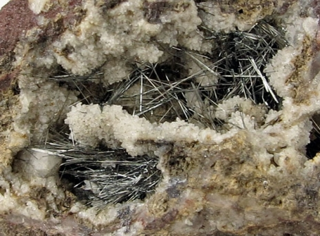 Bismuthinite (Size 5.8 x 4.7 x 3.7 cm) Locality: Cornwall, England, UK Splendent, metallic bismuthinite needles to 7 mm line three, adjacent, quartz-lined vugs on this classic and excellent, old-time specimen from the historic mines of Cornwall. Ex. Robert Whitmore Collection. It comes with two old labels, including one from the famous British dealer Bryce Wright dating from 1866-1874 by its style, with matching number on the specimen to prove they go together. Wright was among the most prominent English mineral dealers in the mid 19th Century. One rarely sees surviving Wright labels.